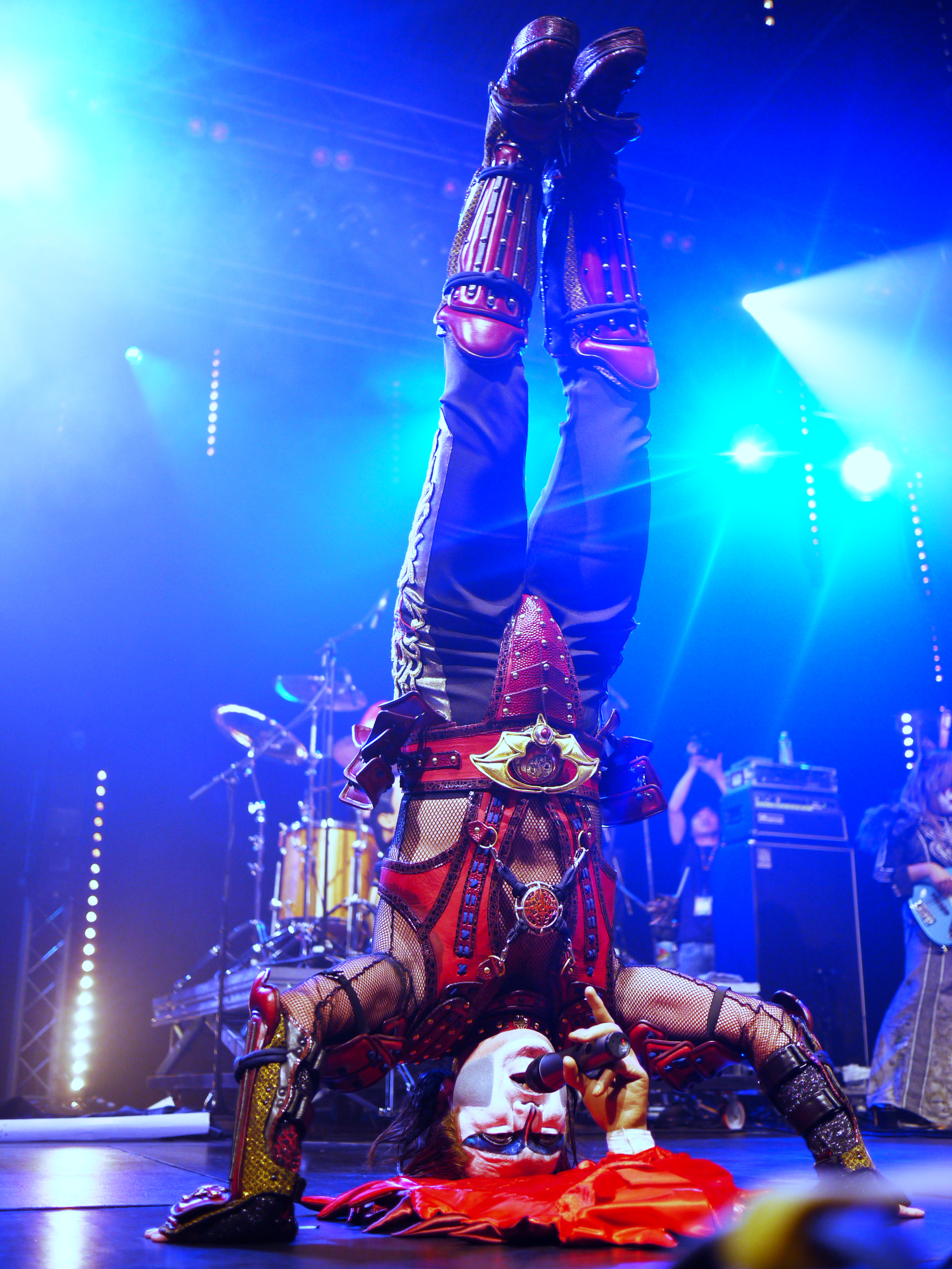 Japan Expo Festival, 11th impact